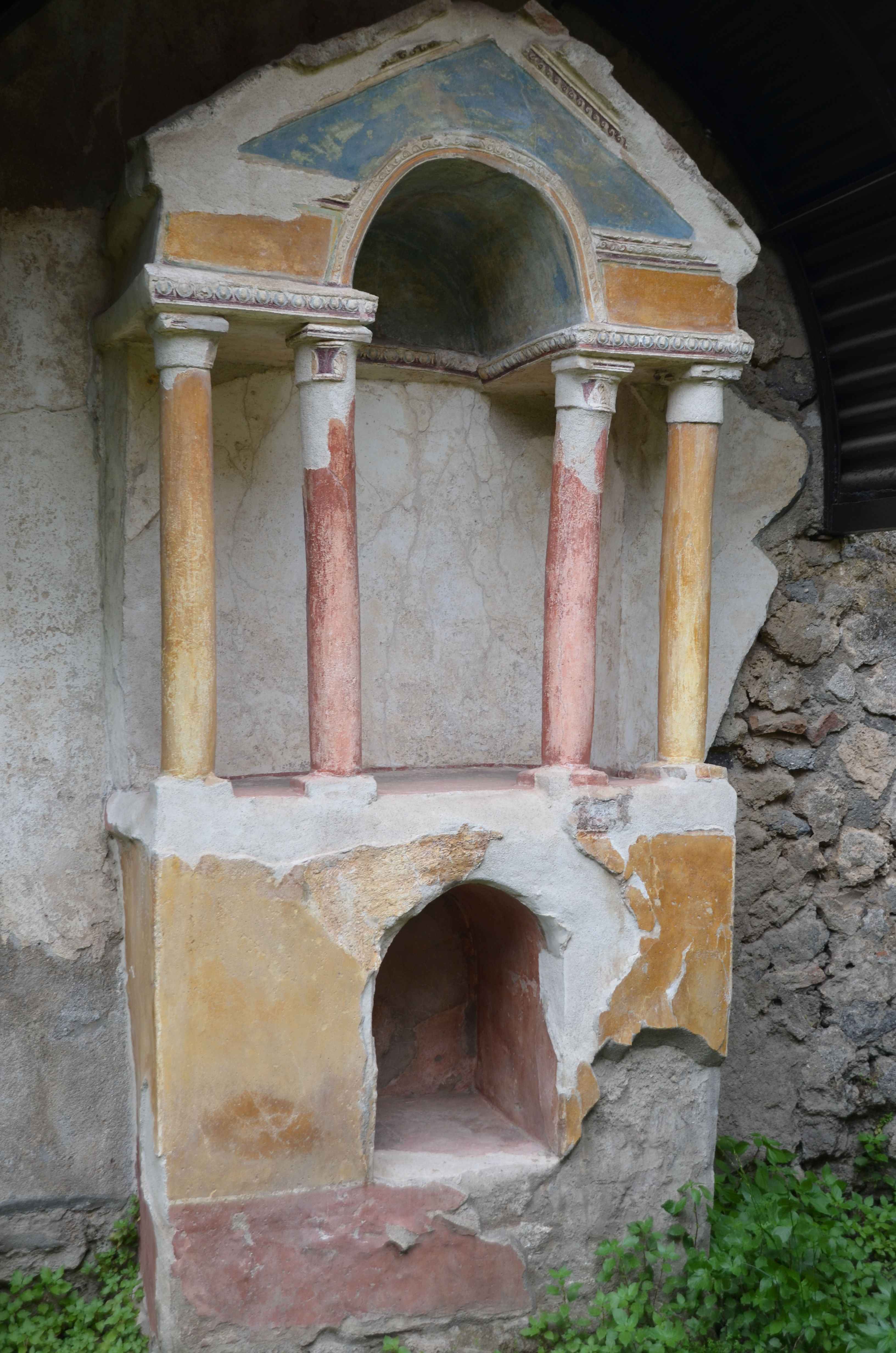 A temple style lararium in the garden of the House of the Prince of Naples, Pompeii, Italy 2nd century BCE - 1st century CE